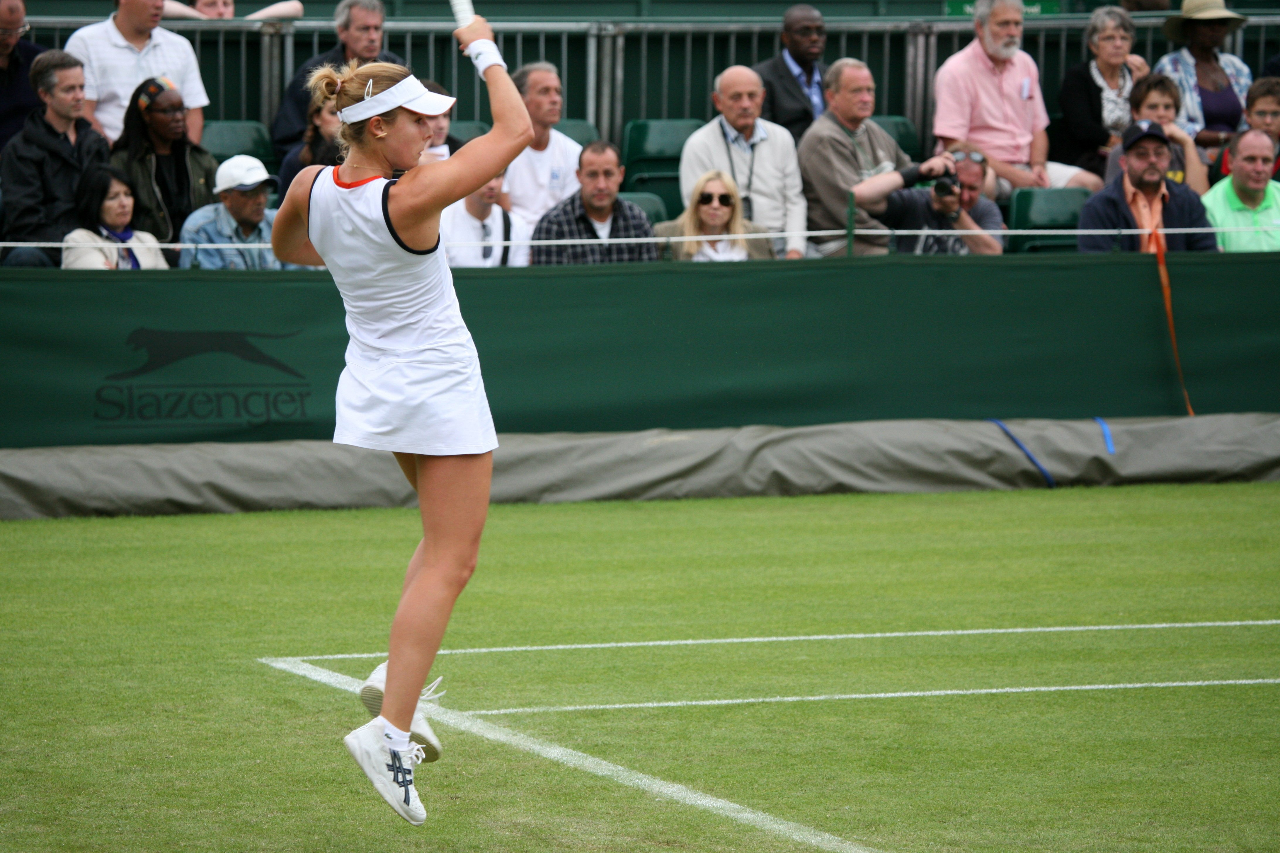 Alizé Cornet against Vera Dushevina in the 2009 Wimbledon Championships first round